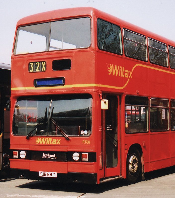 Wiltax bus RT68 (reg. YJB 68T), a 1979 Leyland Titan (B15), pictured at the 2007 Cobham bus rally. The 38th production Titan, unlike the vast majority of production, it was not delivered new to London Transport as part of the dual-door T-class, but instead went to Reading Transport as their bus 68 (along with sister vehicle 69, reg. YJB 69T). Both stayed with that operator in various guises until final withdrawal in 2002, after which their shared history diverges. For detailed information of that period of shared history, see the description on this image (of 69). After withdrawal by Reading, 68 was sold to Thames Bus, who operated it in a blue livery. It was sold to Wiltax of New Haw, Surrey in September 2005. It's pictured here in Wiltax livery, with a stylised lettered Leyland radiator grille badge. This has been added to the bus later in its life (possibly while at Thames) - as one of the earliest Titans it was originally delivered to Reading with the earlier 'dustbin lid' circular 'L' Leyland badge. It saw use with Wiltax until at least 2008, but by 2011 it had been sold to dealer Wealden PSV.